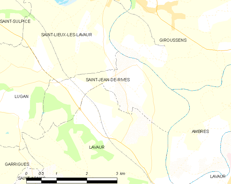 Map of French municipality Saint-Jean-de-Rives